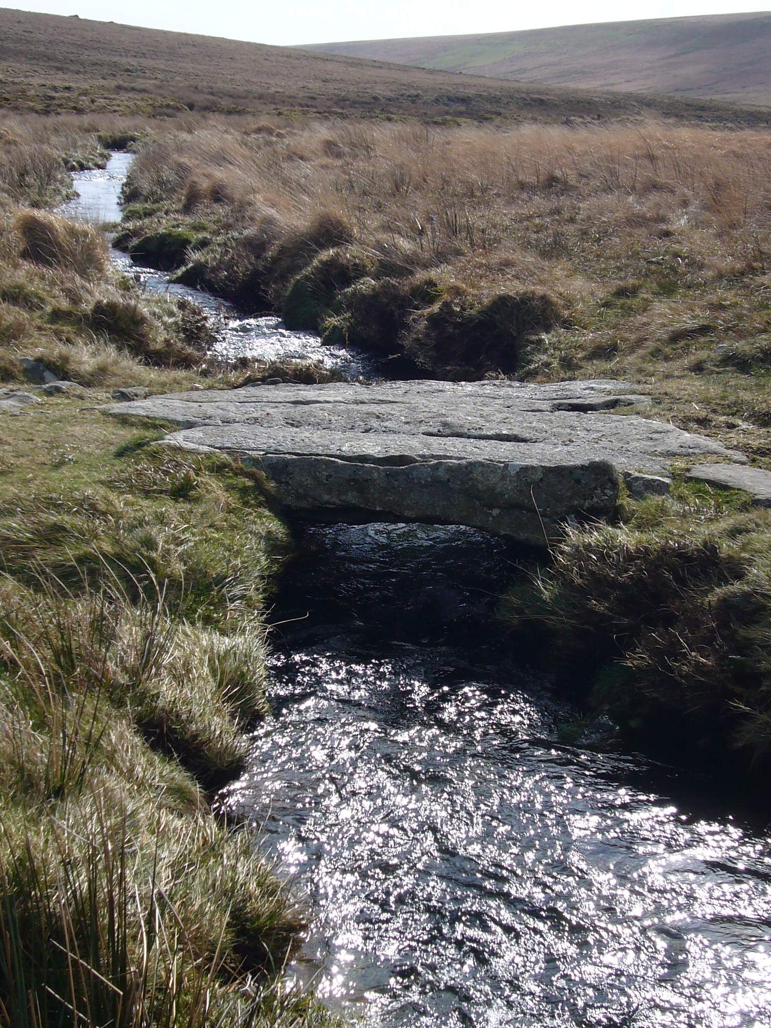 Clapper bridge on the track to Huntingdon Warren House crossing the Western Walla Brook on southern Dartmoor.